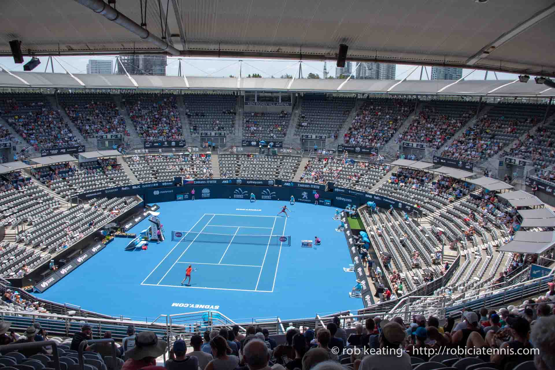 Sydney, Australia - 8 January 2019: Petra Kvitova (near end) in round one against Aryna Sabalenka on Ken Rosewall Arena, Sydney Olympic Park. (Photo by Rob Keating/robiciatennis.com)